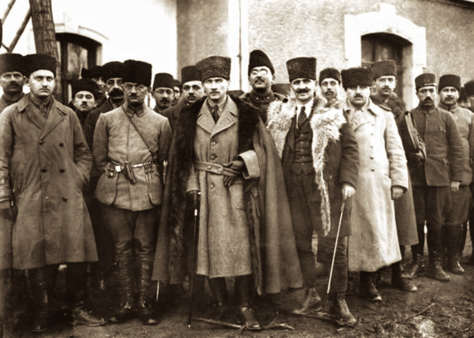 Kemal Atatürk (or alternatively written as Kamâl Atatürk, Mustafa Kemal Pasha until 1934, commonly referred to as Mustafa Kemal Atatürk; 1881 – 10 November 1938) was a Turkish field marshal, revolutionary statesman, author, and the founding father of the Republic of Turkey, serving as its first President from 1923 until his death in 1938. He undertook sweeping progressive reforms, which modernized Turkey into a secular, industrial nation. Ideologically a secularist and nationalist, his policies and theories became known as Kemalism. Due to his military and political accomplishments, Atatürk is regarded as one of the most important political leaders of the 20th century.